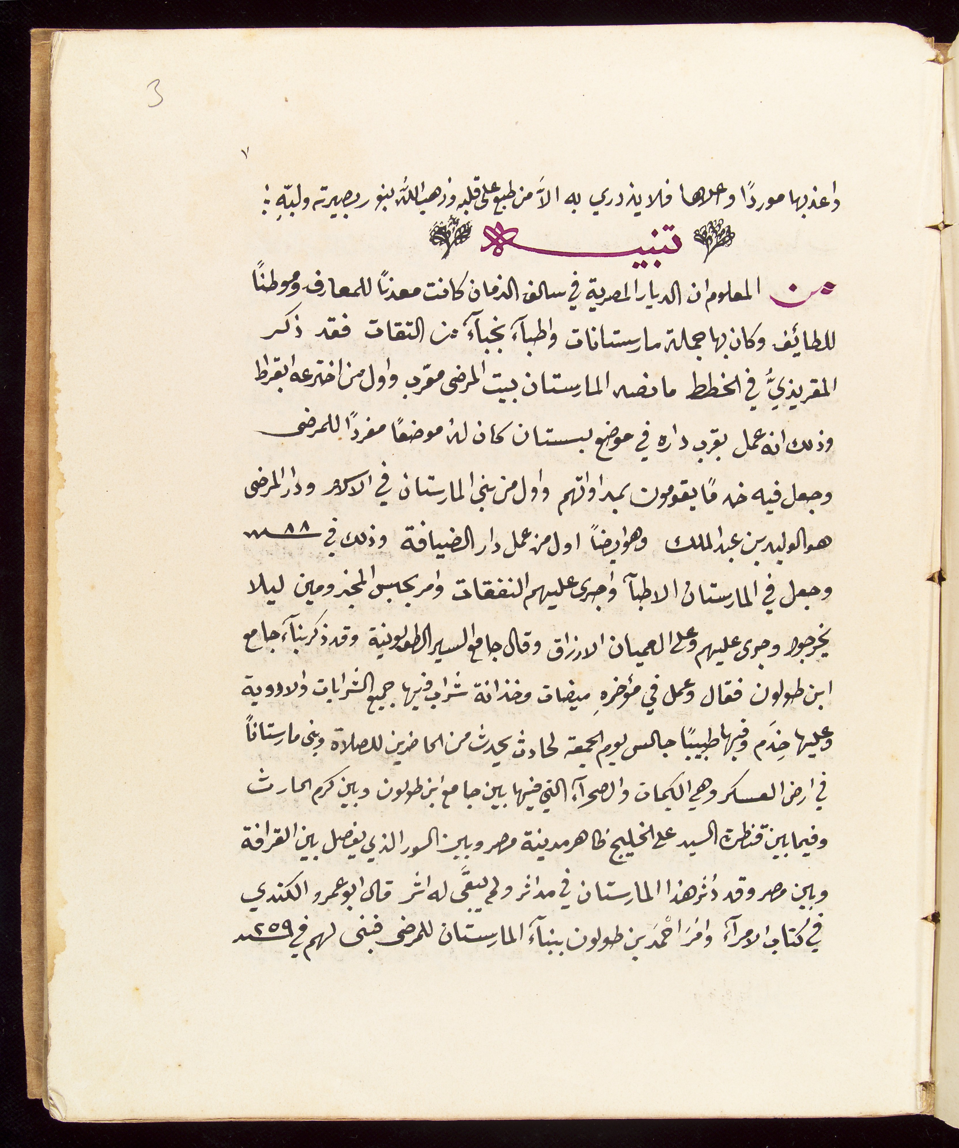 Page from an Arabic Text Asian Collection Keywords: Arabic